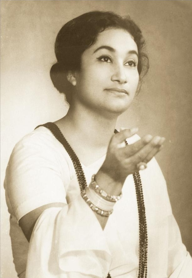 Young Firoza Begum